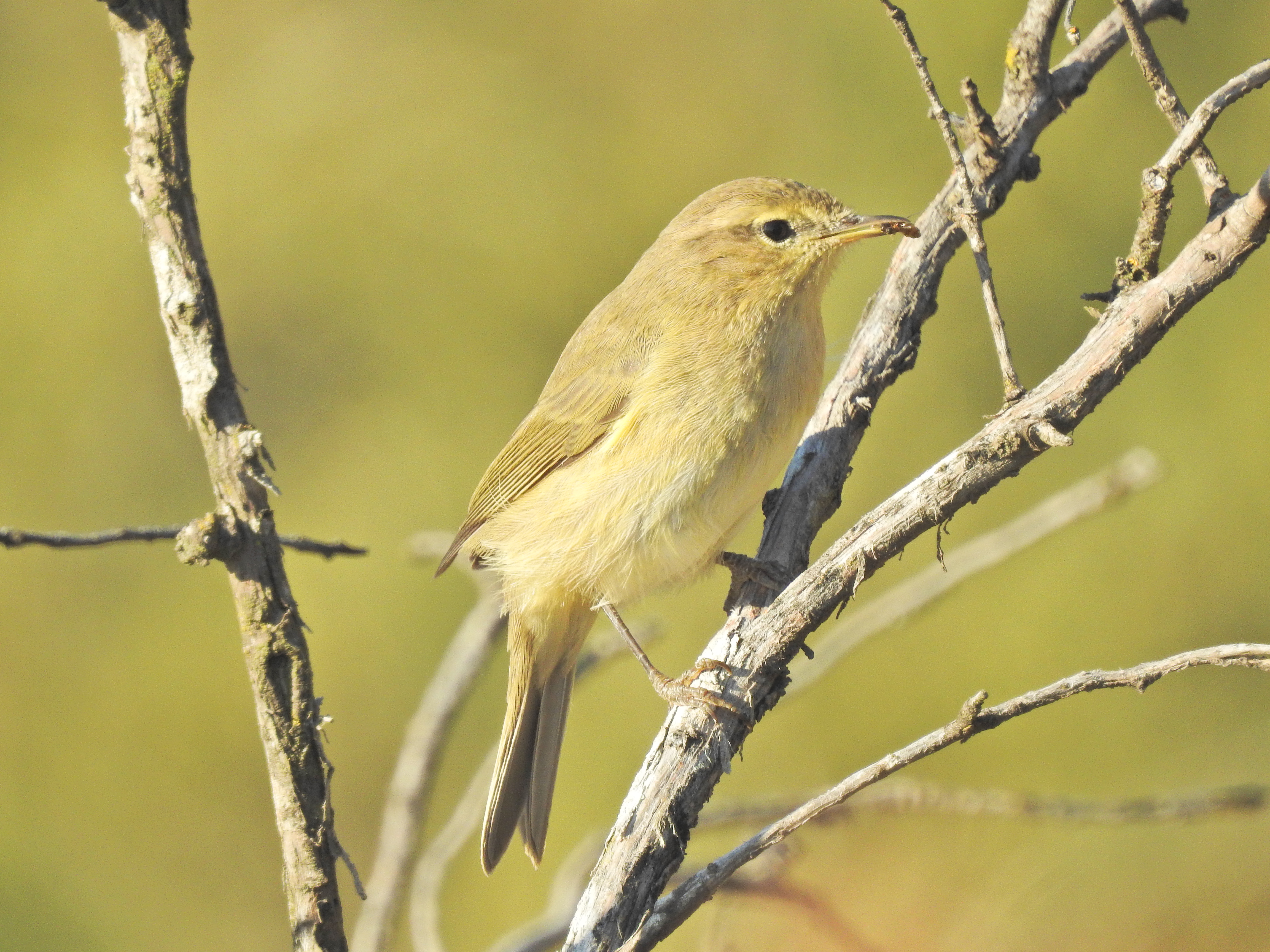 willow warbler Fitis Pitulice fluierătoare